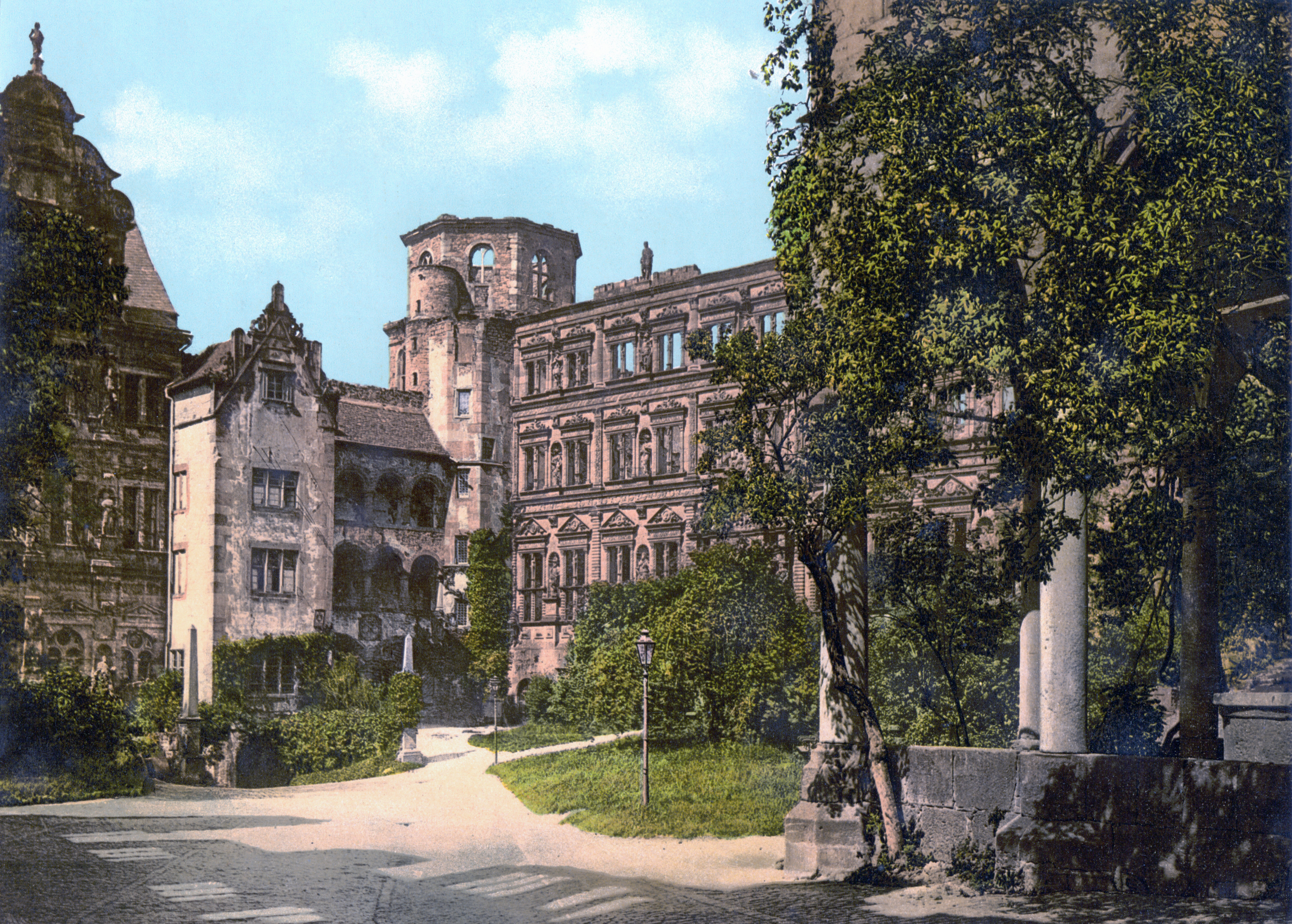 Castle of Heidelberg - courtyard